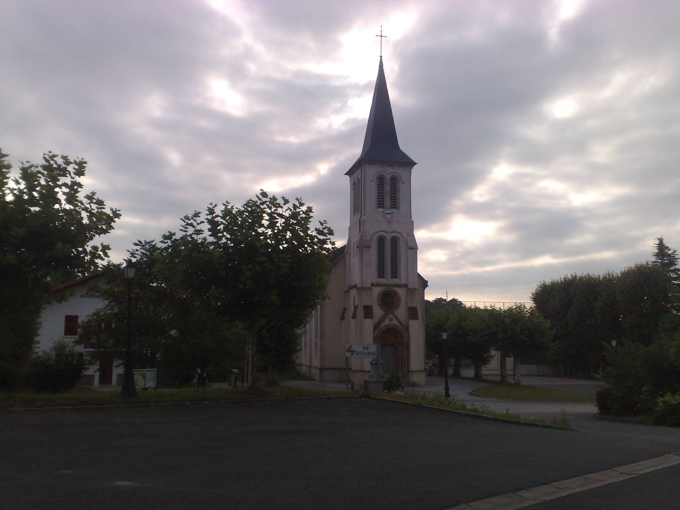 Arboti (fr Arbouet, Lower Navarre, Basque Country): from left to right old council hall, the church and the pelota court.